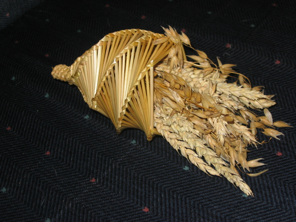 corn dolly cornucopia